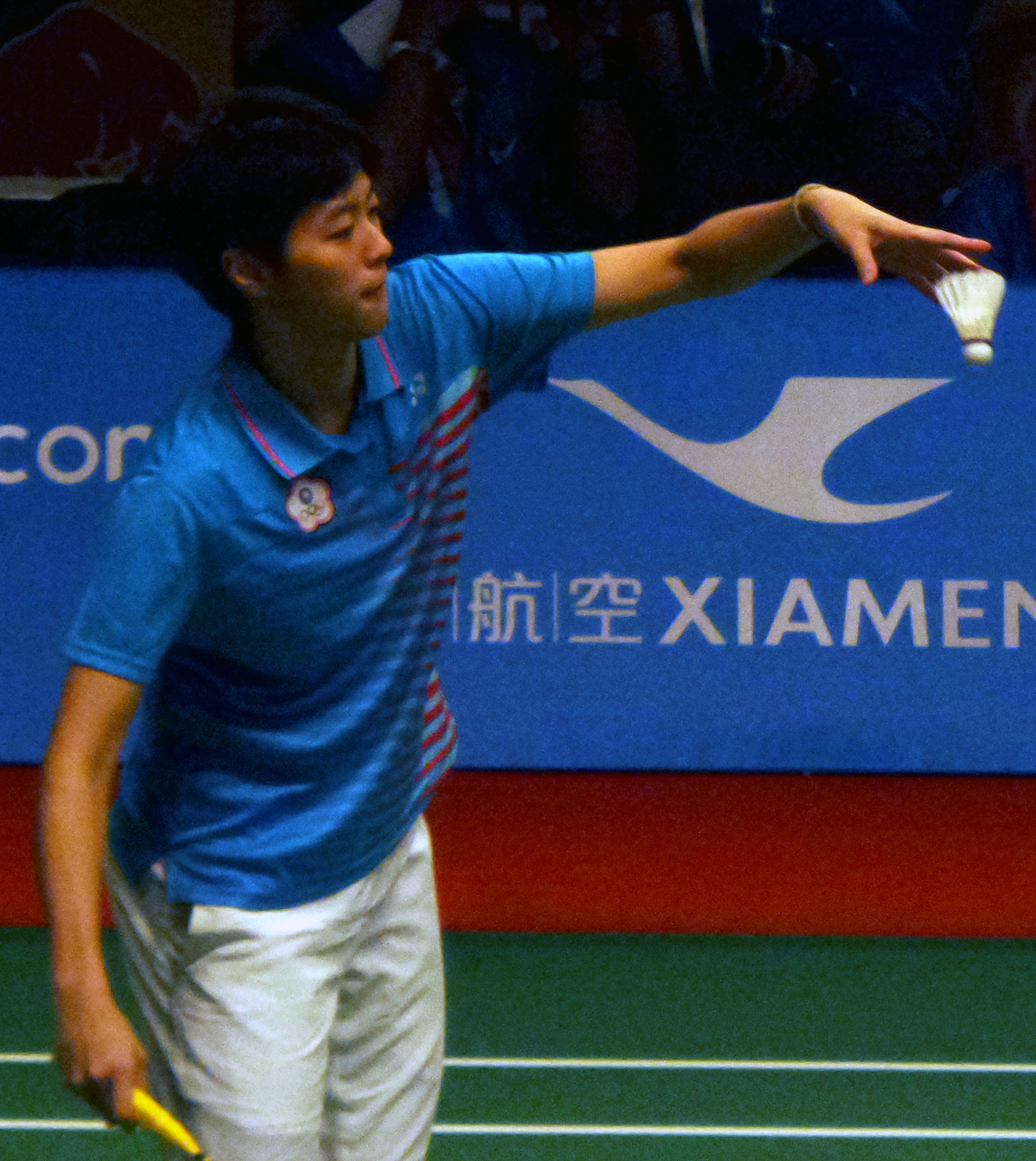 Pai Yu-po in action during in action during BWF World Championships Day 2